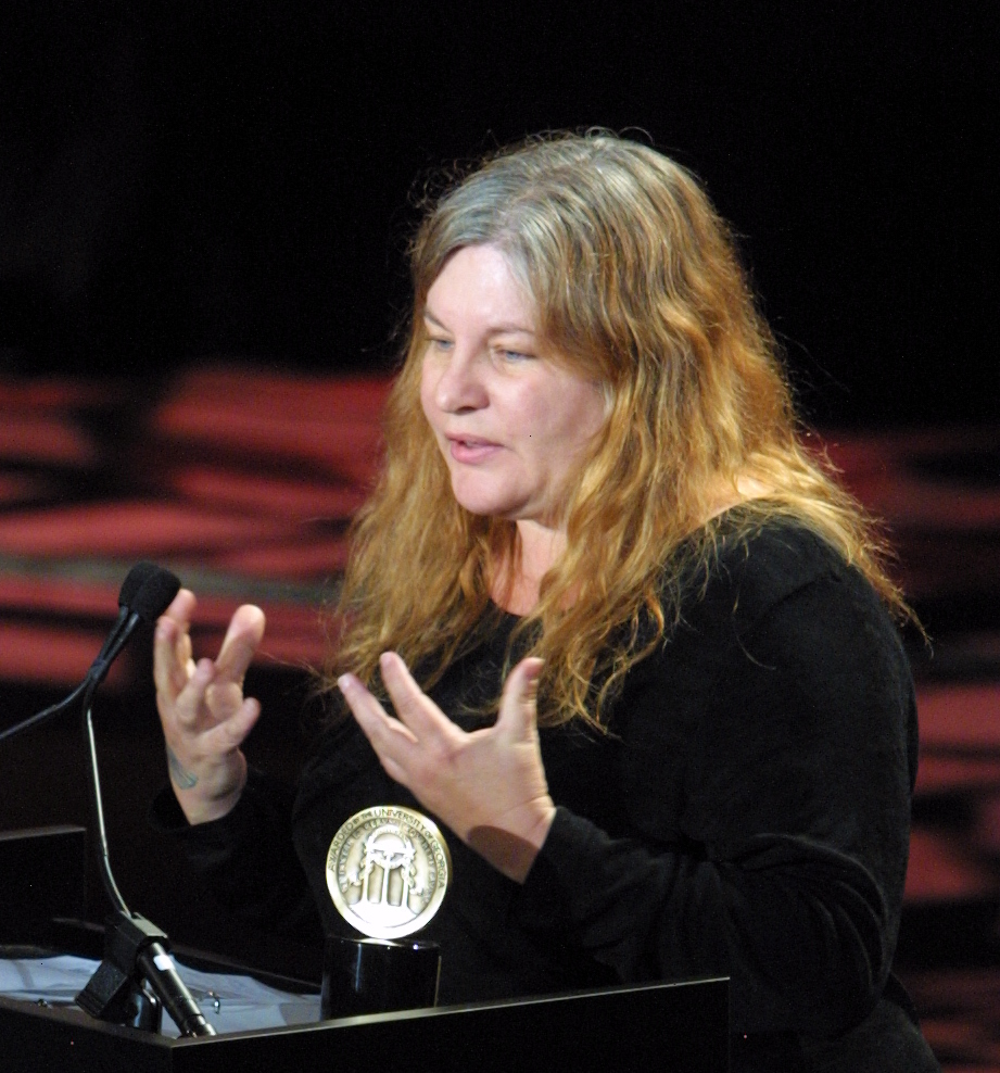 PHOTO CREDIT: ANDERS KRUSBERG / PEABODY AWARDS 61st Annual Peabody Awards Luncheon Waldorf=Astoria Hotel May 20, 2002